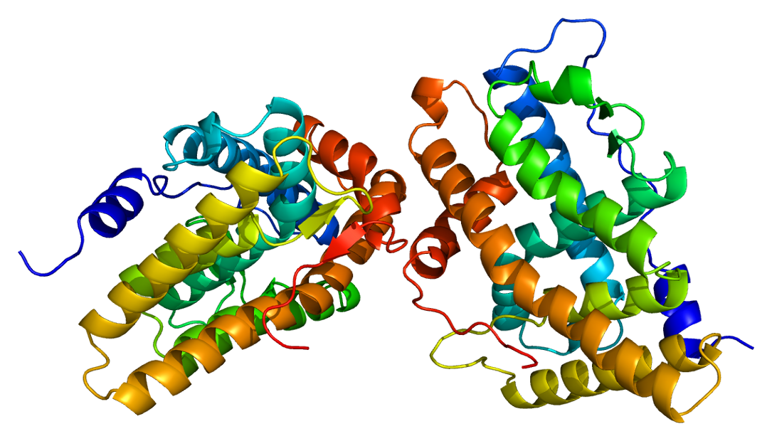 Structure of the PGR protein. Based on PyMOL rendering of PDB 1a28.